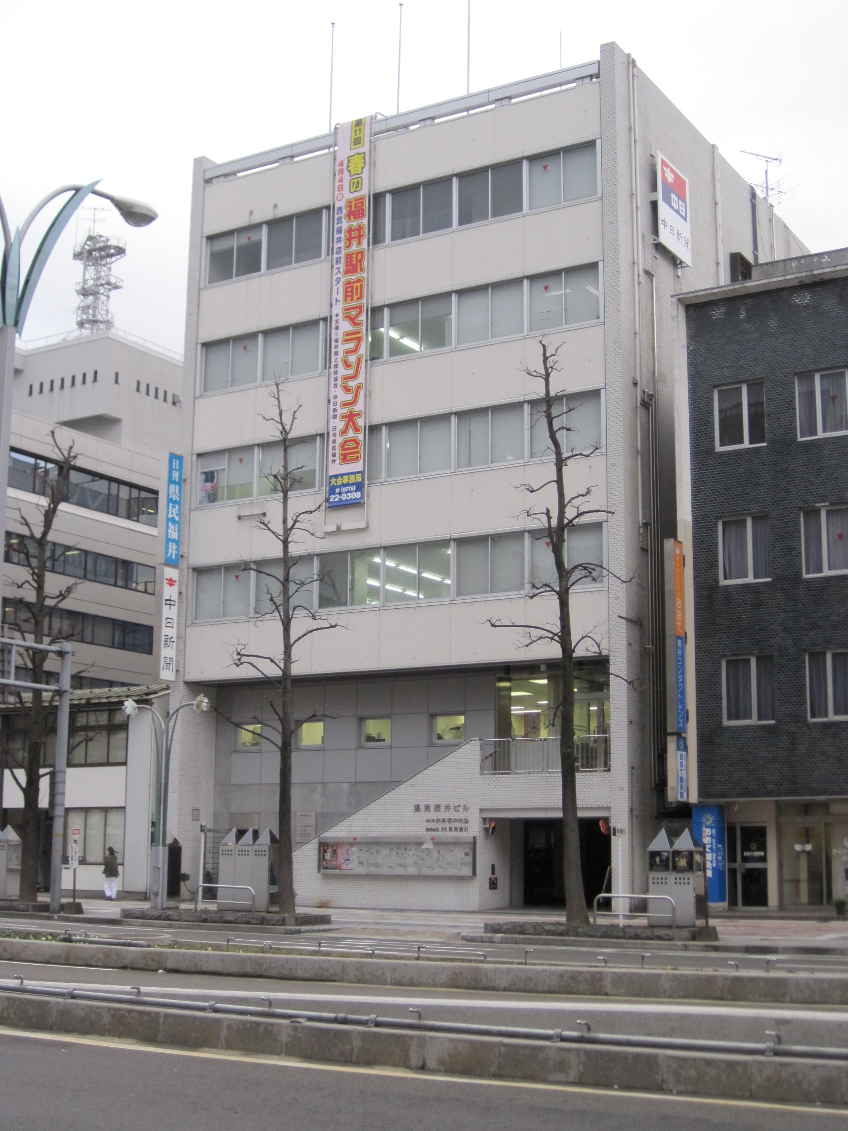 Chunichi Shinbun Fukui Branch(Fukui city, Fukui prefecture, Japan)